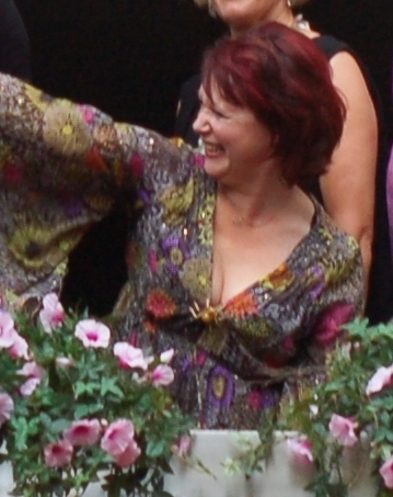 Catherine Johnson at the Premiere of Mamma Mia! (2008)